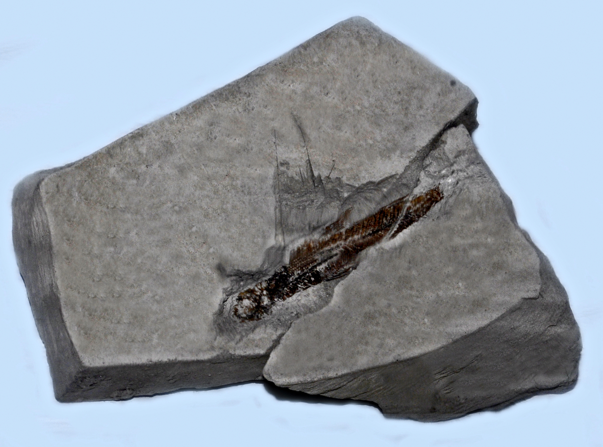 Fossil of Bregmaceros species from Pliocene on display at Museo Geologico G. Cappellini, Bologna